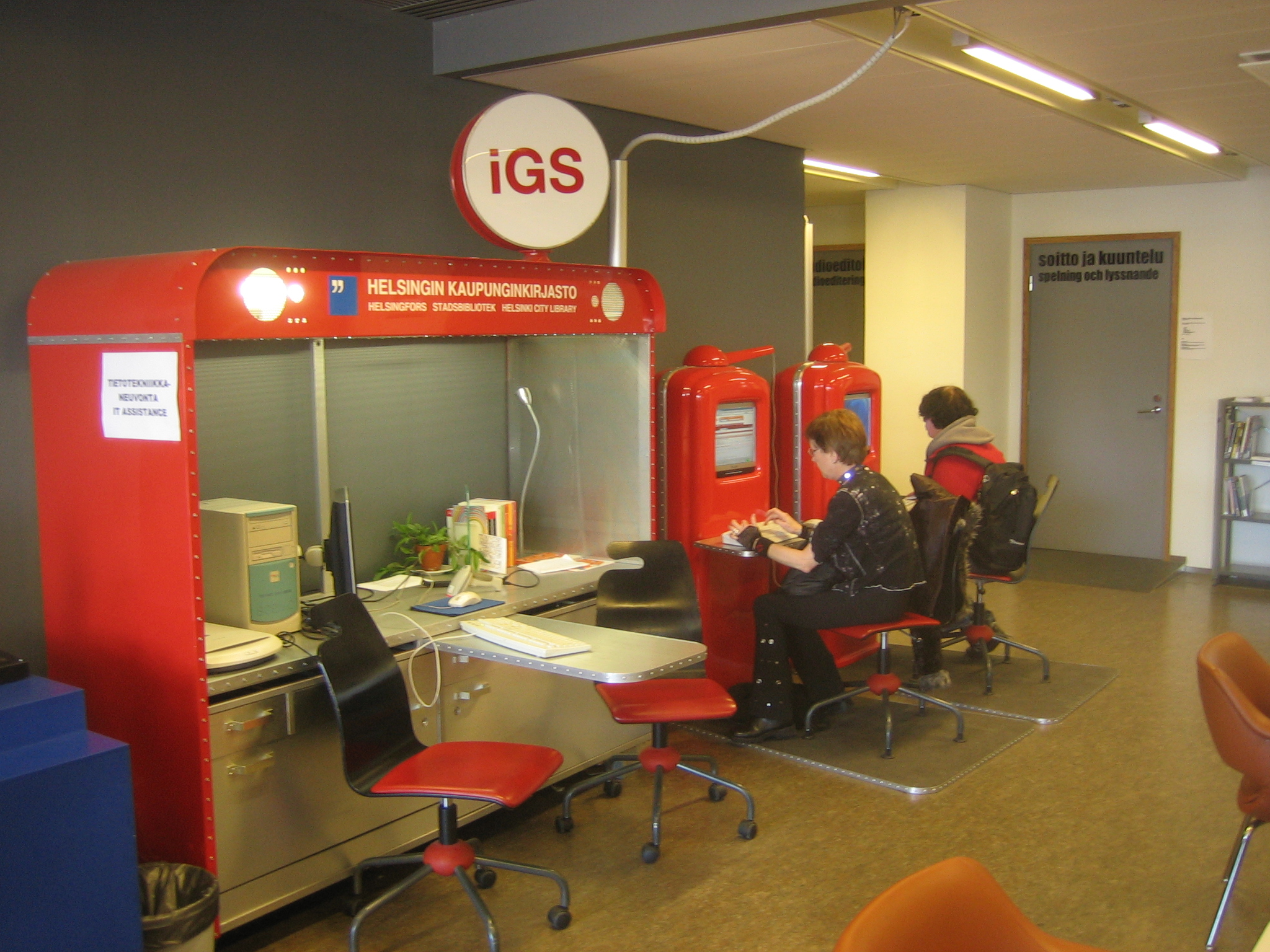 Library 10 interior